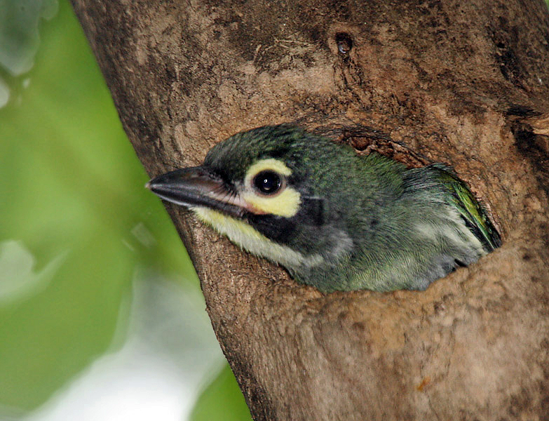 Coppersmith Barbet Megalaima haemacephala in Kolkata, West Bengal, India.